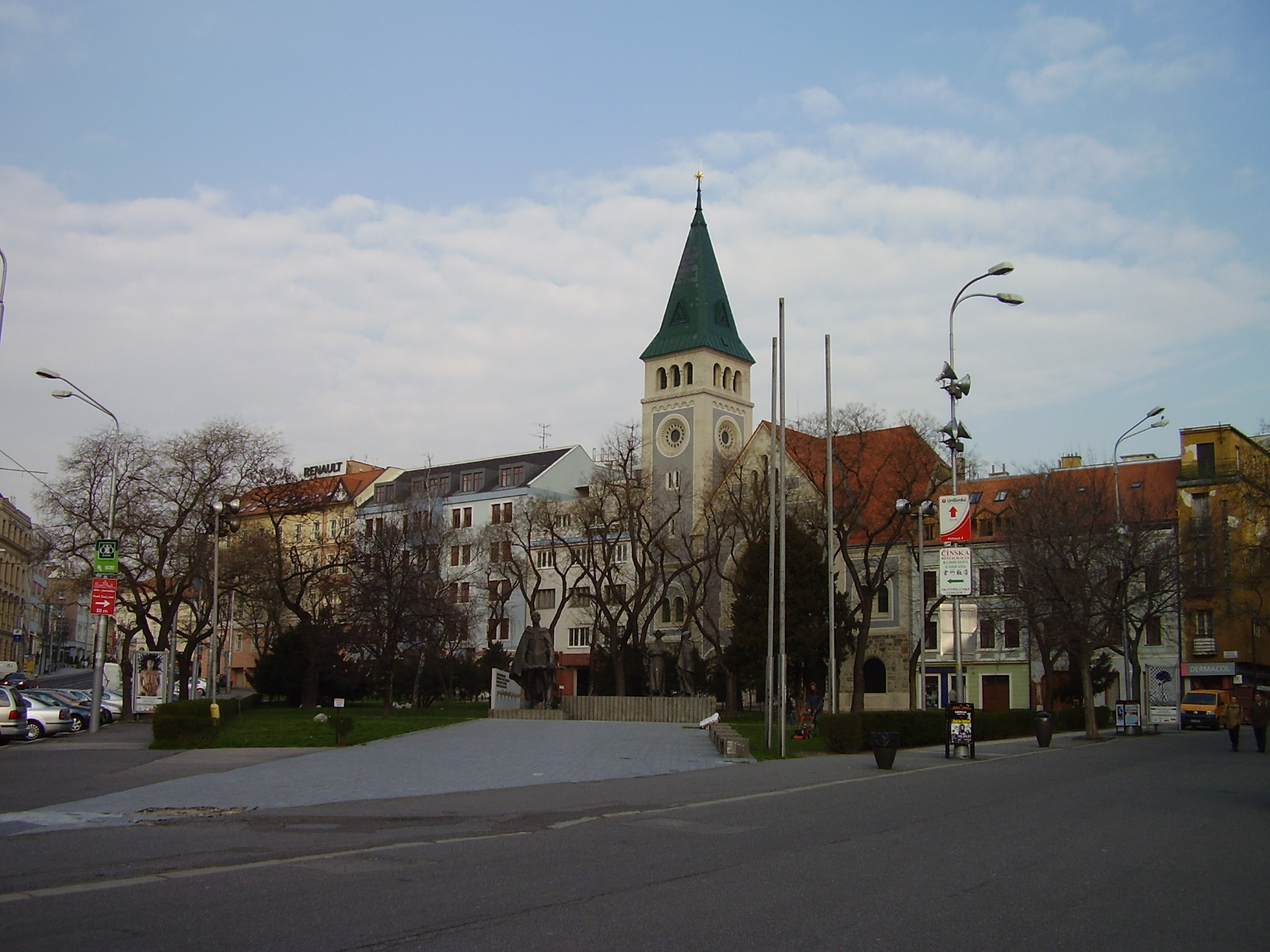 Bratislava city centre